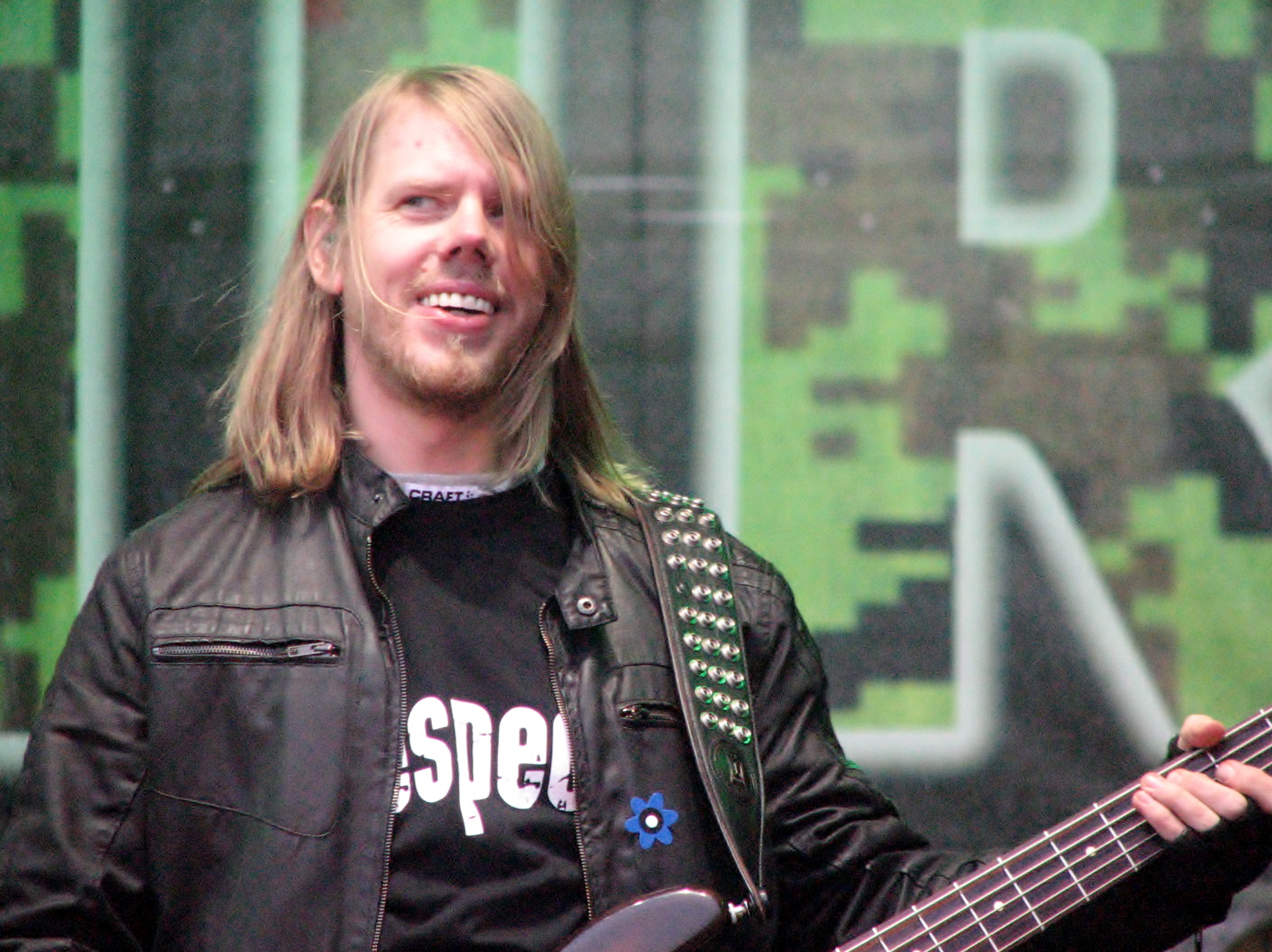 Henno Kelp performing in a concert